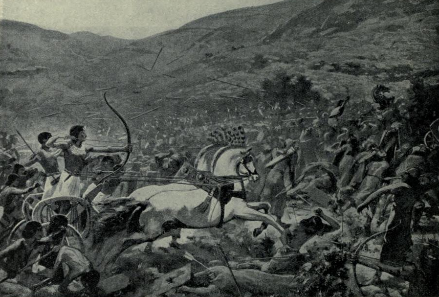 Egypt - Seti I in Syria